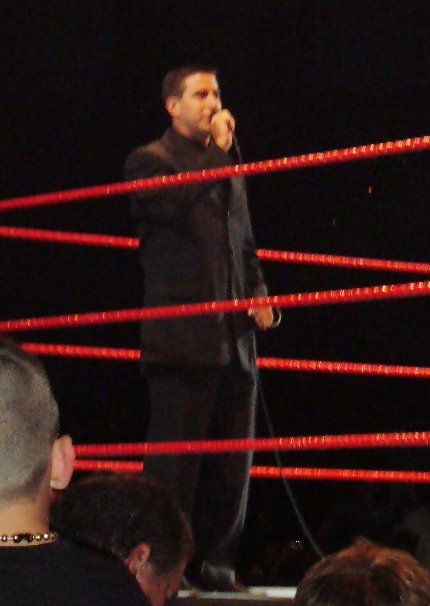 This is a picture I took at a WWE RAW House show in College Station on June 23, 2007. The picture shows Justin Roberts in the ring announcing the first match of the night (Chuck Palumbo vs. William Regal). Naha